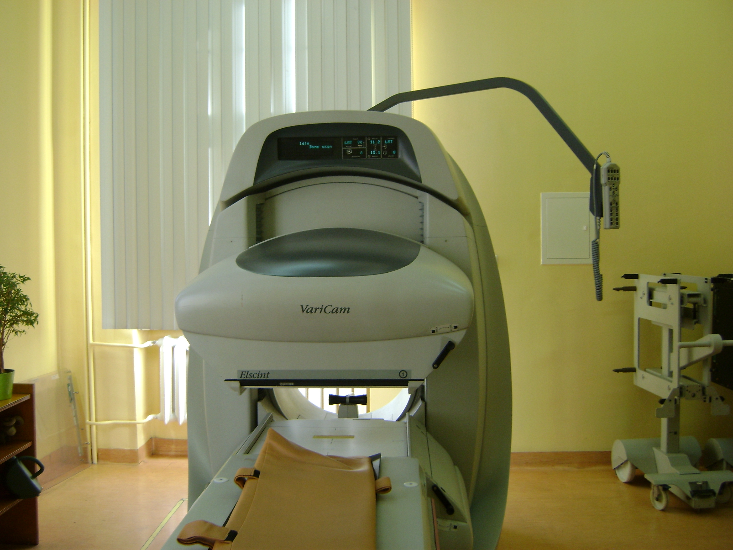 apparatus for making scintigraphy